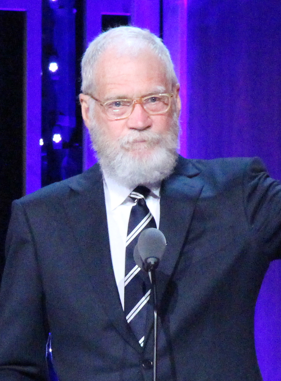 David Letterman accepting his Individual Peabody Award. (Photo/Sarah E. Freeman/Grady College, in New York City, Georgia, on Saturday, May 21, 2016)